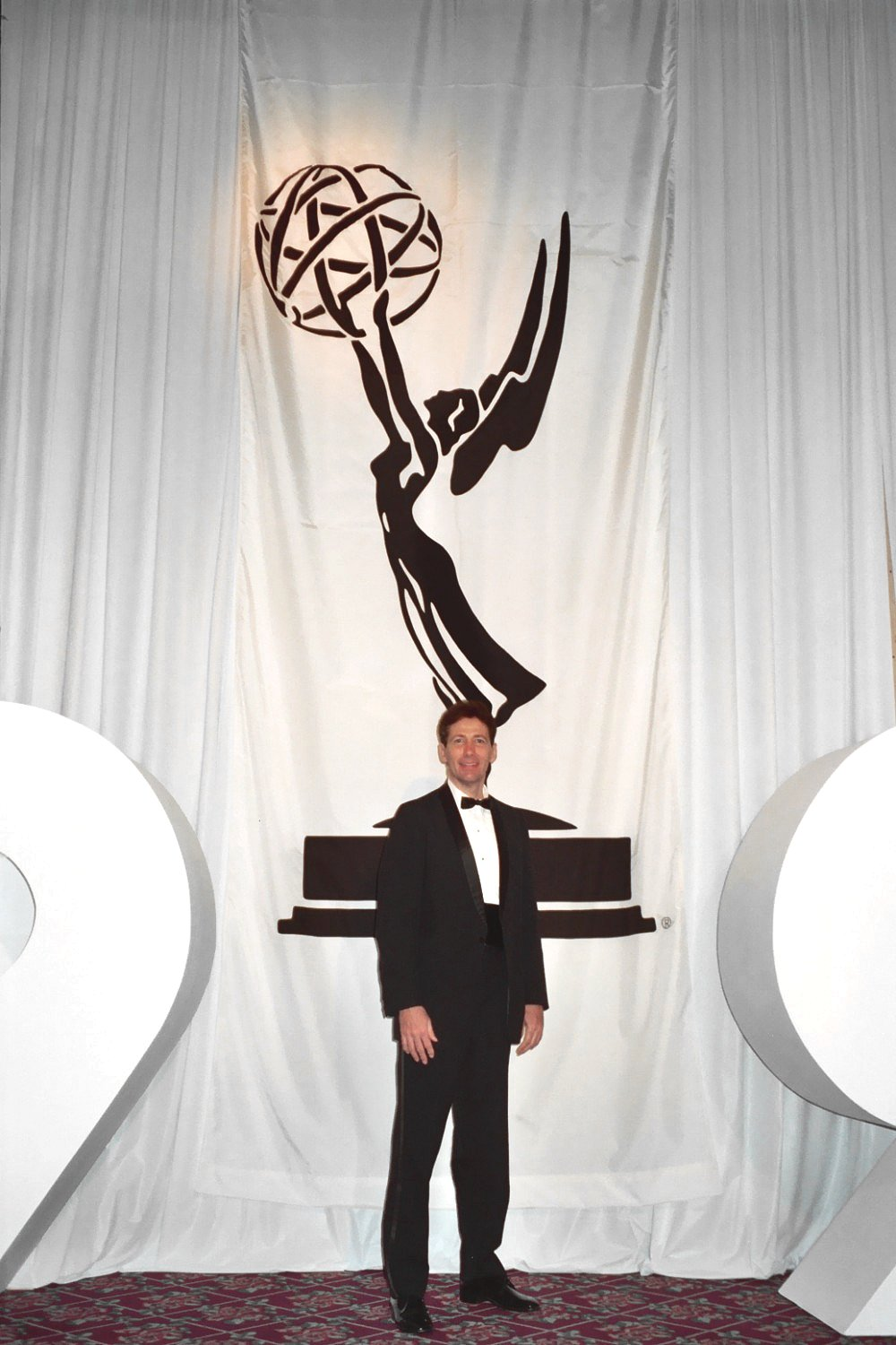 1994 Emmy Awards NOTE: Permission granted to copy, publish, broadcast or post any of my photos, but please credit "photo by Alan Light" if you can. Thanks. Scanned from the original 35MM film negative.